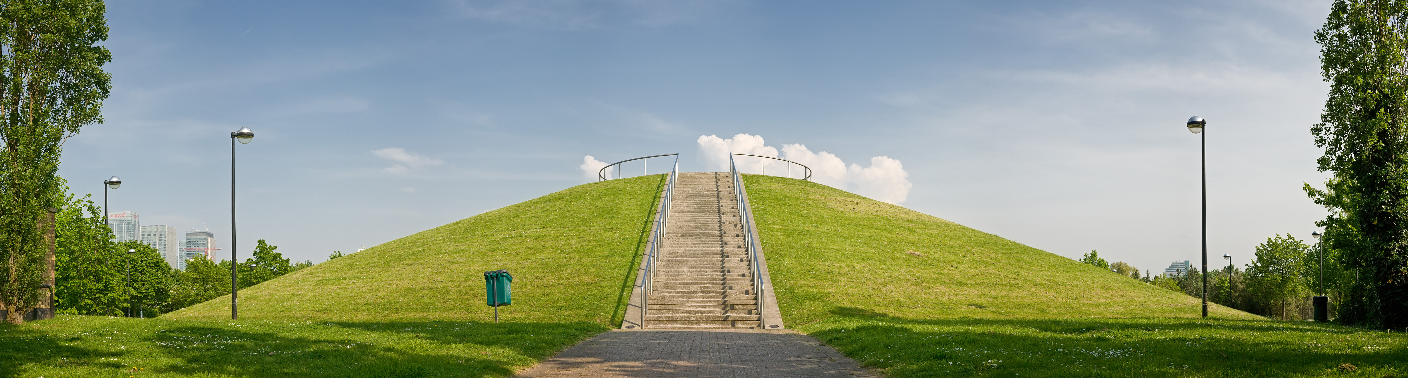 A 7 segment panoramic image of Stave Hill in Rotherhithe/Canada Water, London, England. Taken by myself with a Canon 5D and 24-105mm F/4L IS lens.